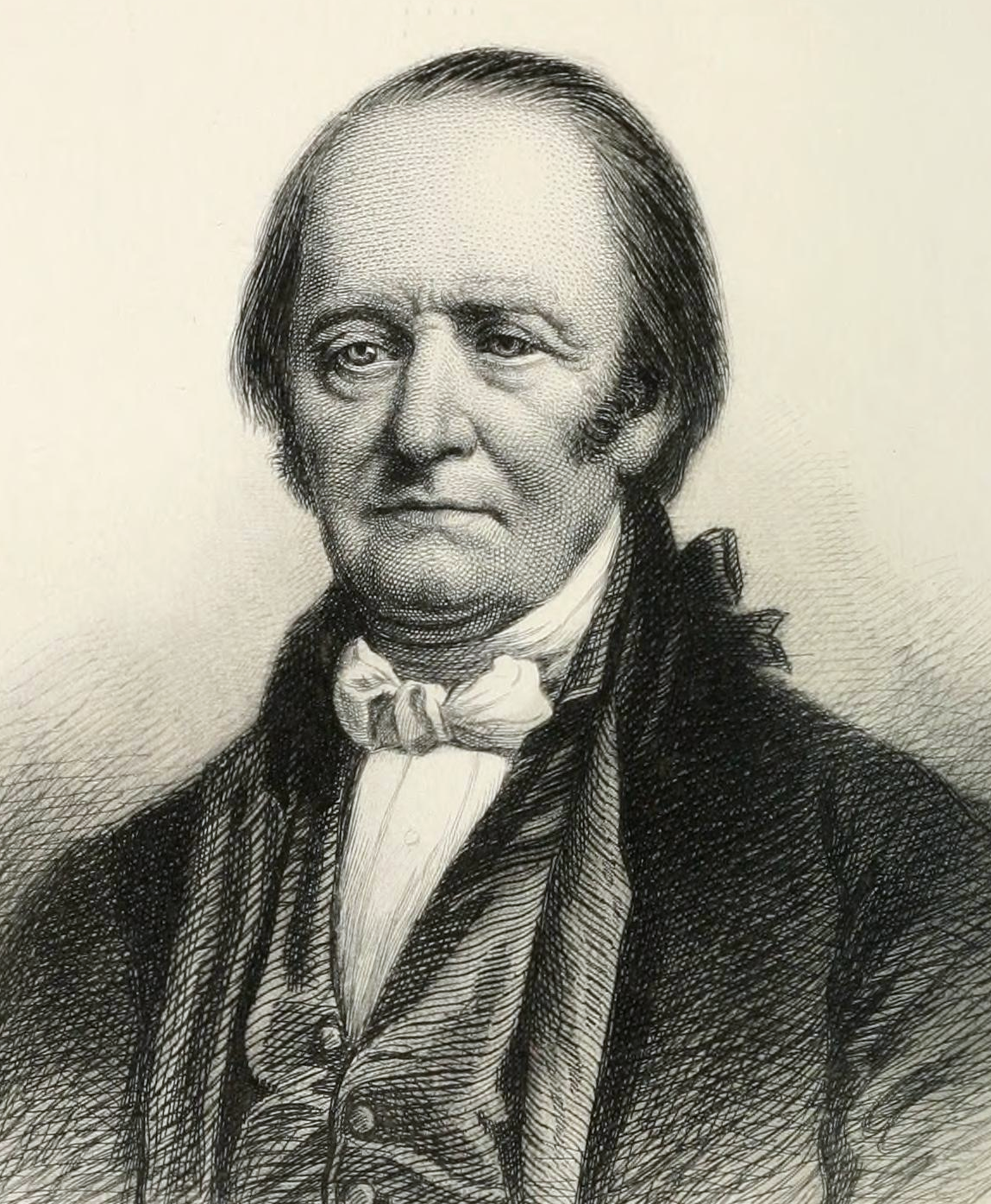 Official portrait of Thomas Chittenden, leader and founder of the Vermont Republic and later the first Governor of the State of Vermont. No contemporary likeness of his image is known to exist; this portrait may have been drawn sometime after 1847 by Vermont artist B.F. Mason, who was hired by the state to copy an image of Chittenden as well as Ethan Allen, in the event such an "authentic likeness" could be obtained.[1] In the portrait's source material, credit is given to his 2nd-great-grandson the Hon. Lucius E. Chittenden of New York City, and one David Read of Burlington, VT.[2] There are a number of rumors as to the origins of the portrait, with some stating the image was made from descriptions of Chittenden's children, whereas others believe one of Chittenden's grandsons served as its model.[3][4]